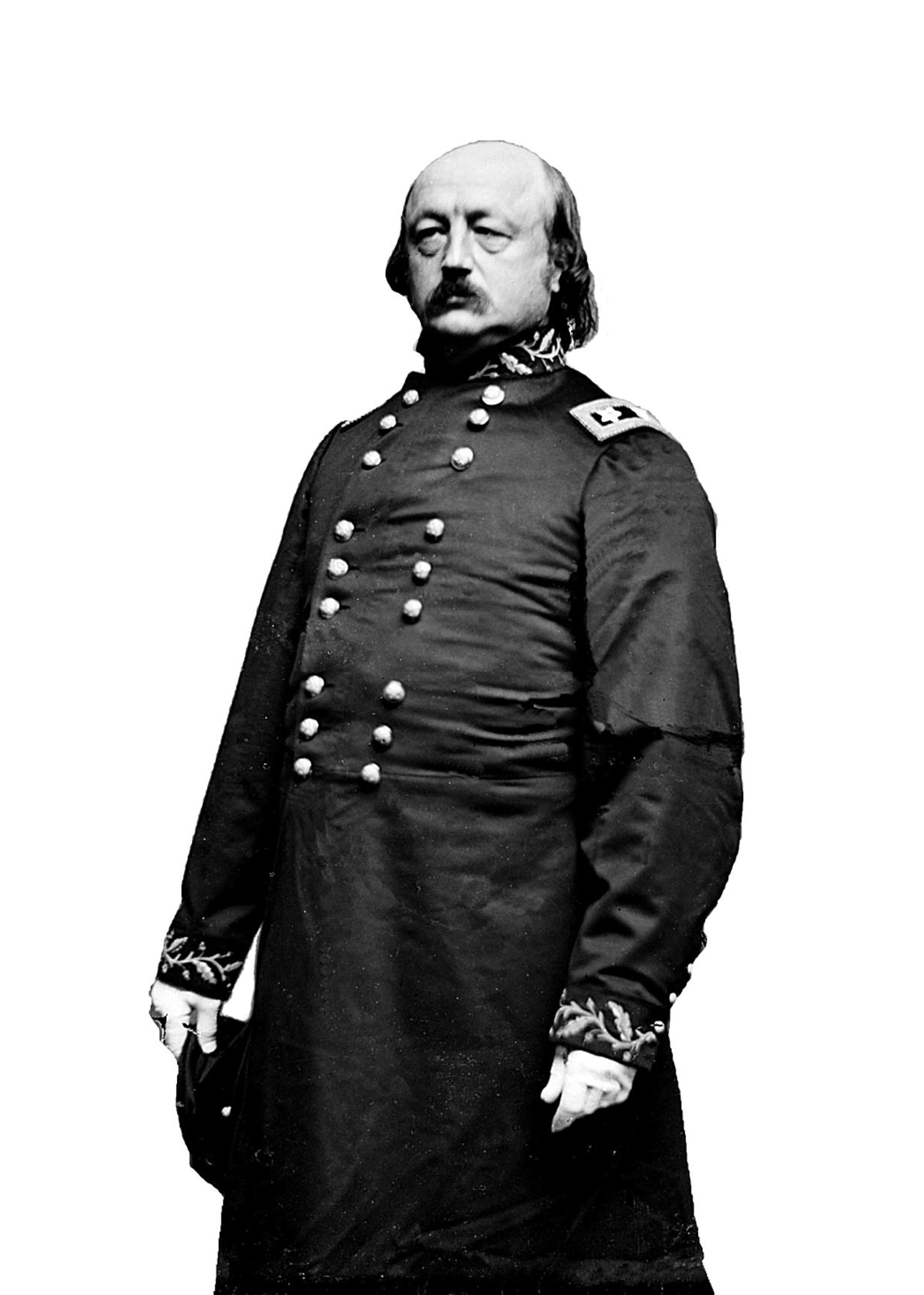 Photograph of Union Major General Benjamin Butler. Military governor of occupied New Orleans, American Civil War. Library of Congress Prints and Photographs Division